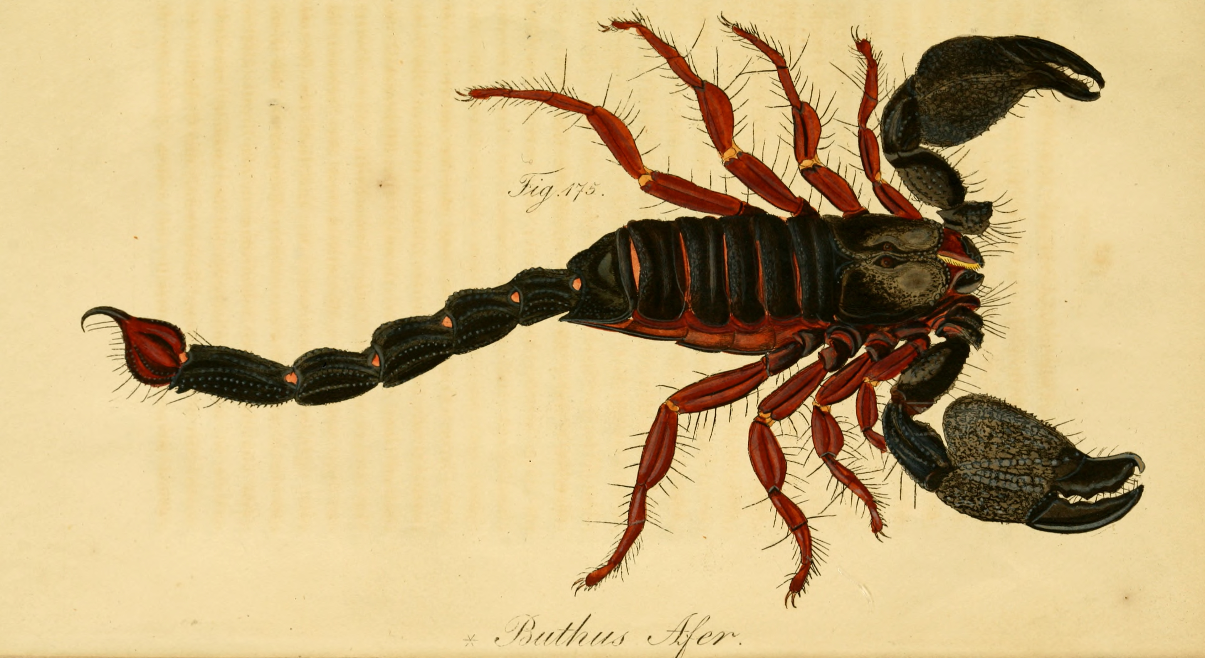 Heterometrus swammerdami, incorrectly idientified as Buthus afer, from Carl Ludwig Koch, Die Arachniden, vol. 3, Nuremberg 1836, plate LXXIX